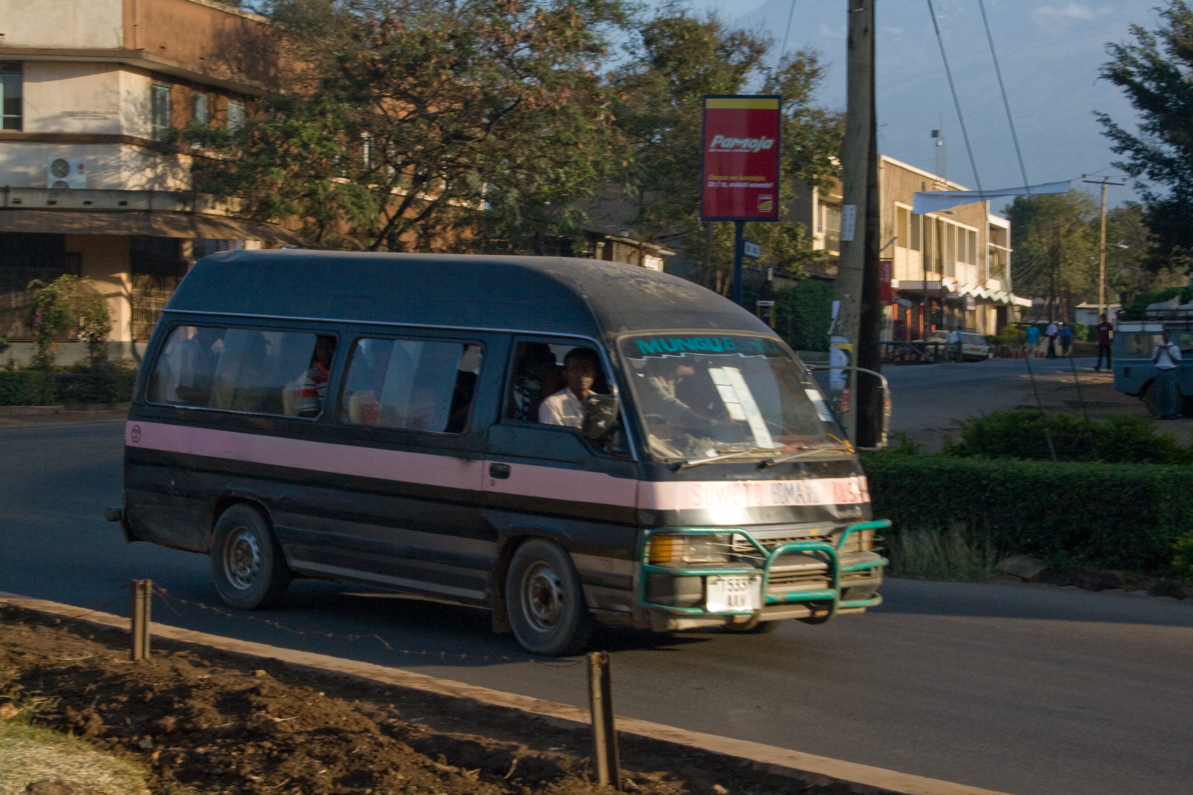 Daladala in Moshi, Tanzania. On the frontside: Soweto - Bamako - Arusha.